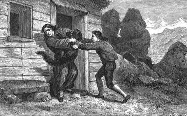 An engraving showing a cat springing at a vicar's neck. It is an illustration to the Icelandic legend of Eiríkur í Vogsósum.